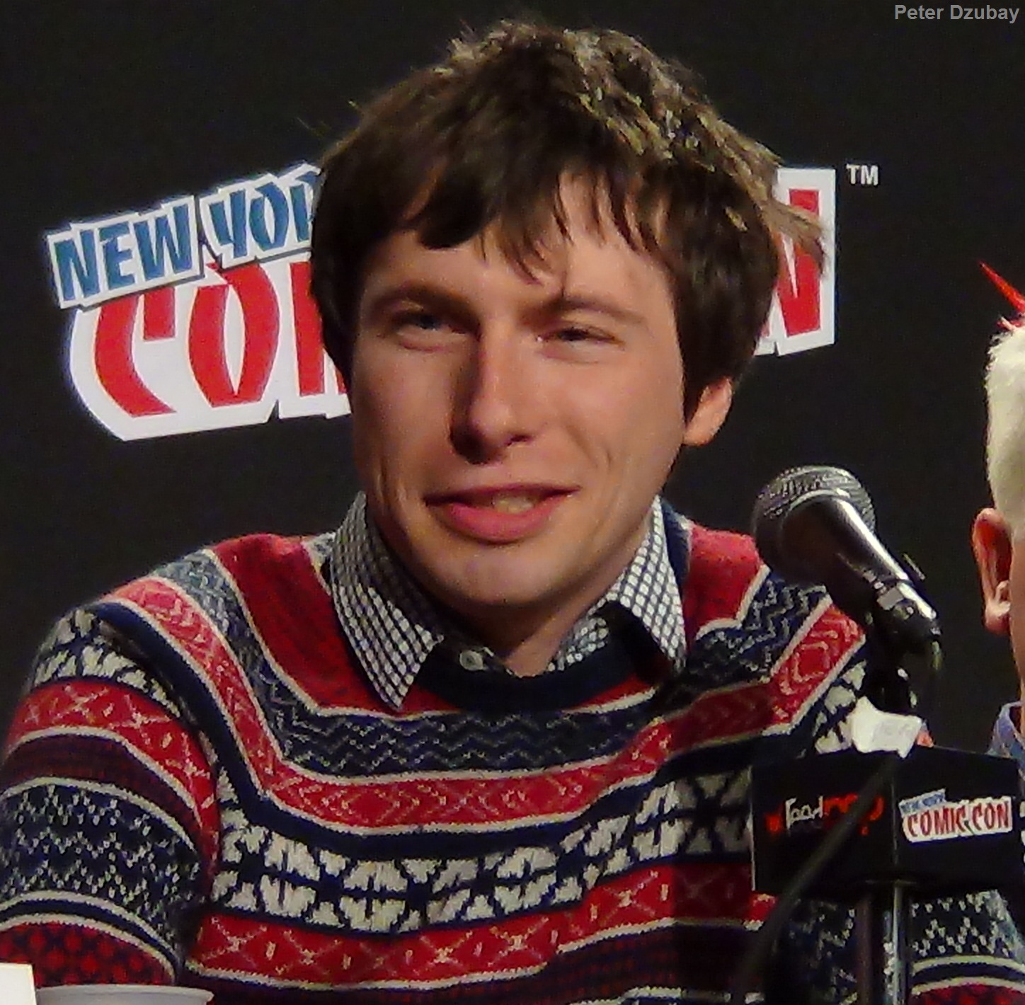 Patrick McHale speaking at the Cartoon Network Presents: CN Anythingǃ at the 2014 New York Comic Con. PHOTO BY PETER DZUBAY